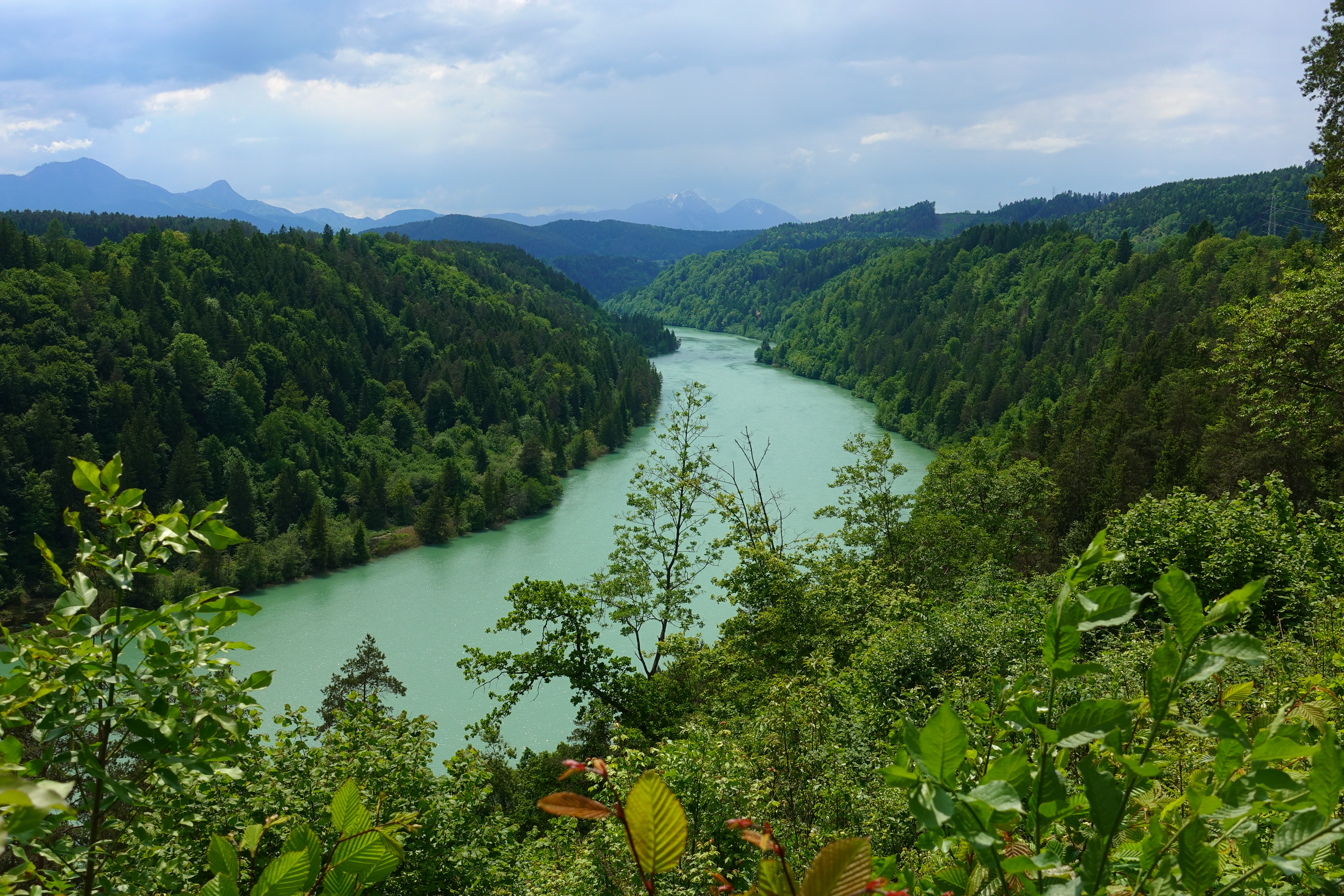 Drau River near Ruden in Kärnten / Österreich